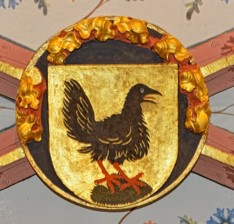 Wappen des Speyerer Bischofs Raban von Helmstatt (um 1420), Stiftskirche Neustadt an der Weinstraße